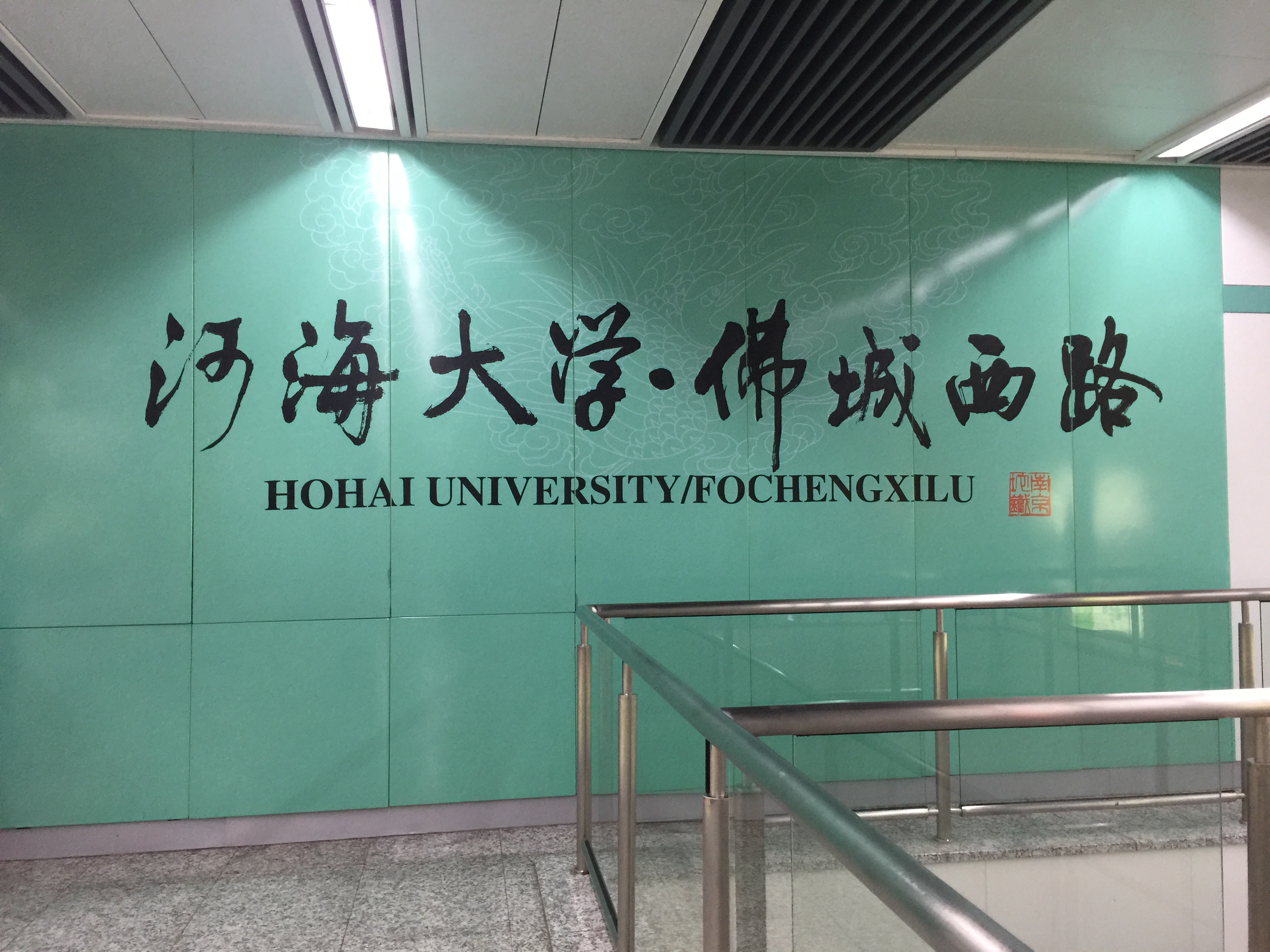 Large station name wall of HHU/Fochengxilu station, Line S1, Nanjing Metro.